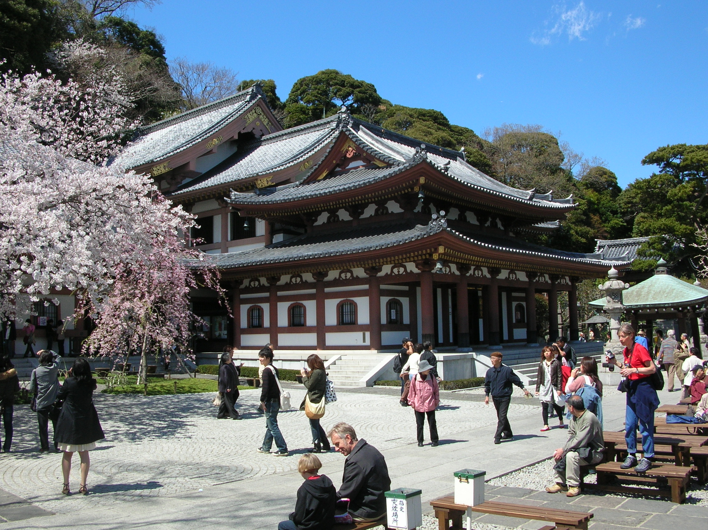 Main building of Hase-dera temple, Kamakura, Japan